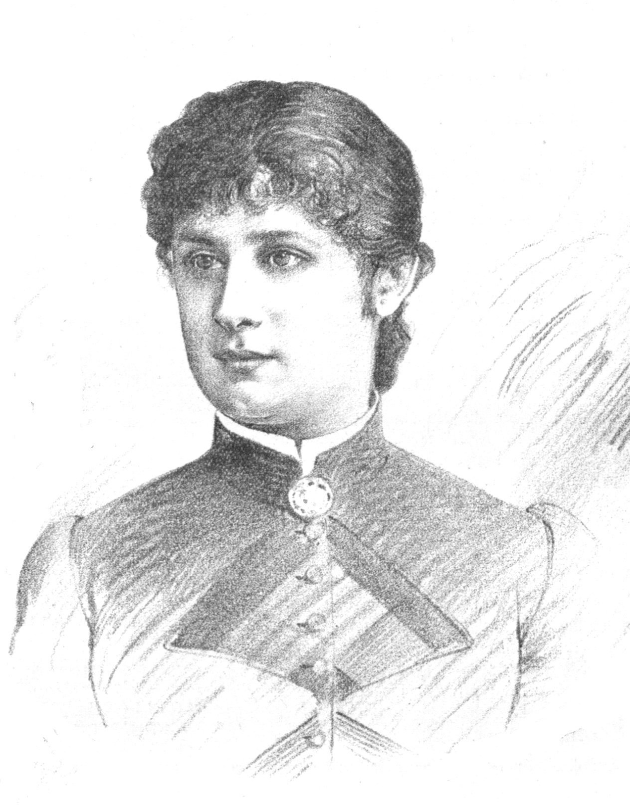 Portrait of Auguste Diacono (1863-1945), German actress.